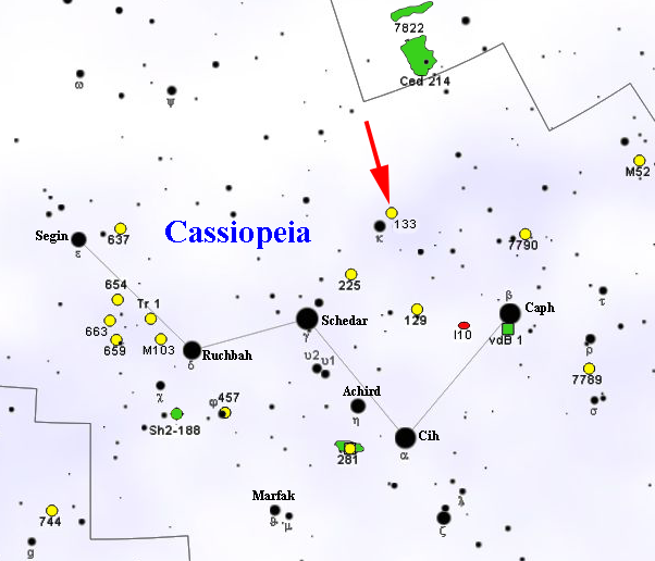 Map of NGC 133